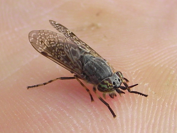 Haematopota pluvialis, female